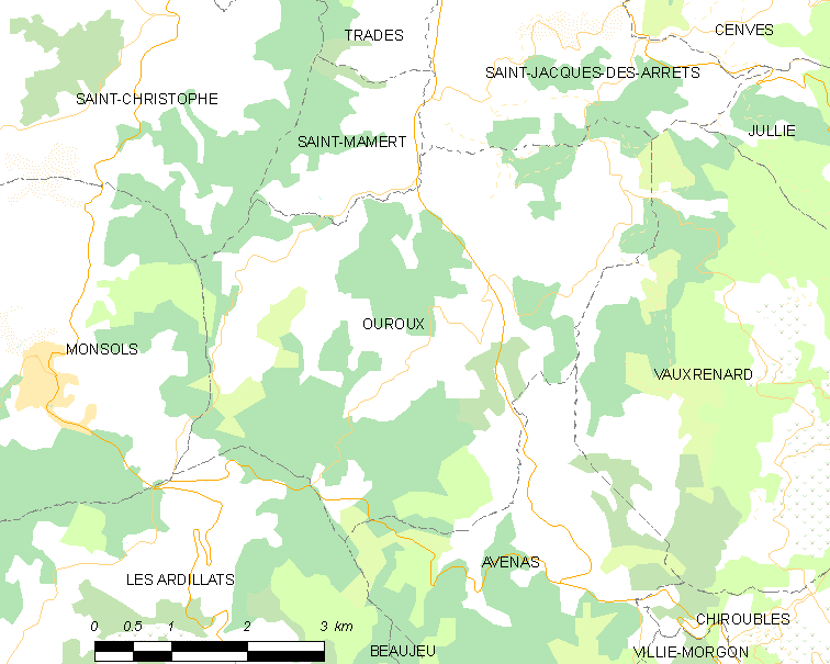 Map of French municipality